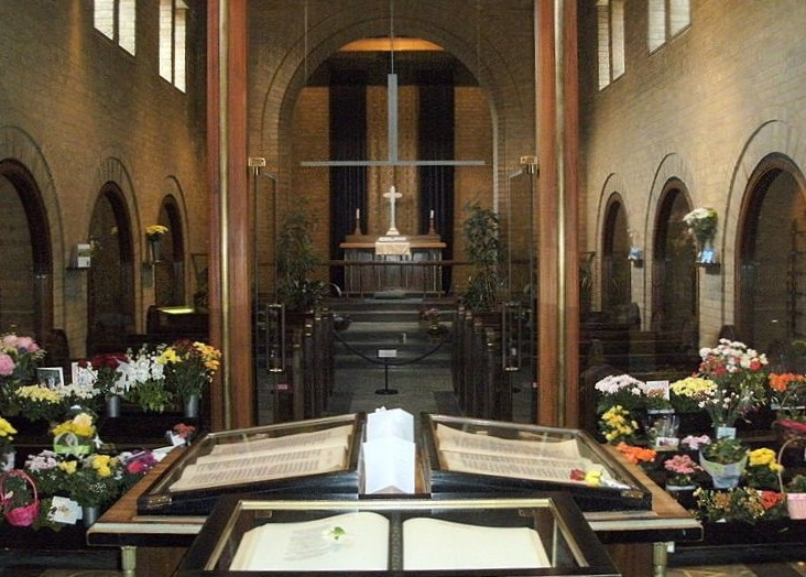 Chapel of Memory (Golders Green Crematorium)